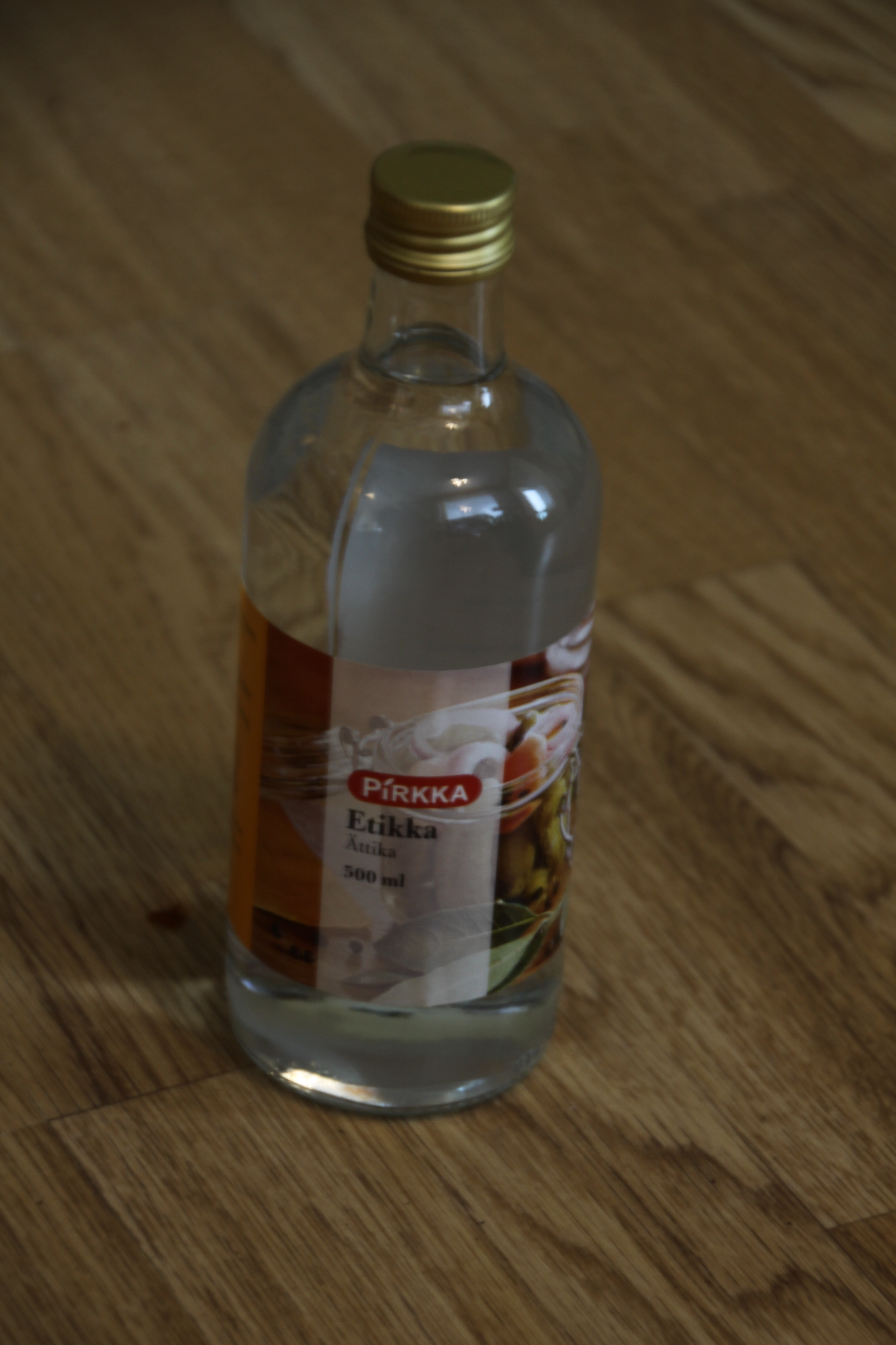 Finnish Pirkka-spirit vinegar